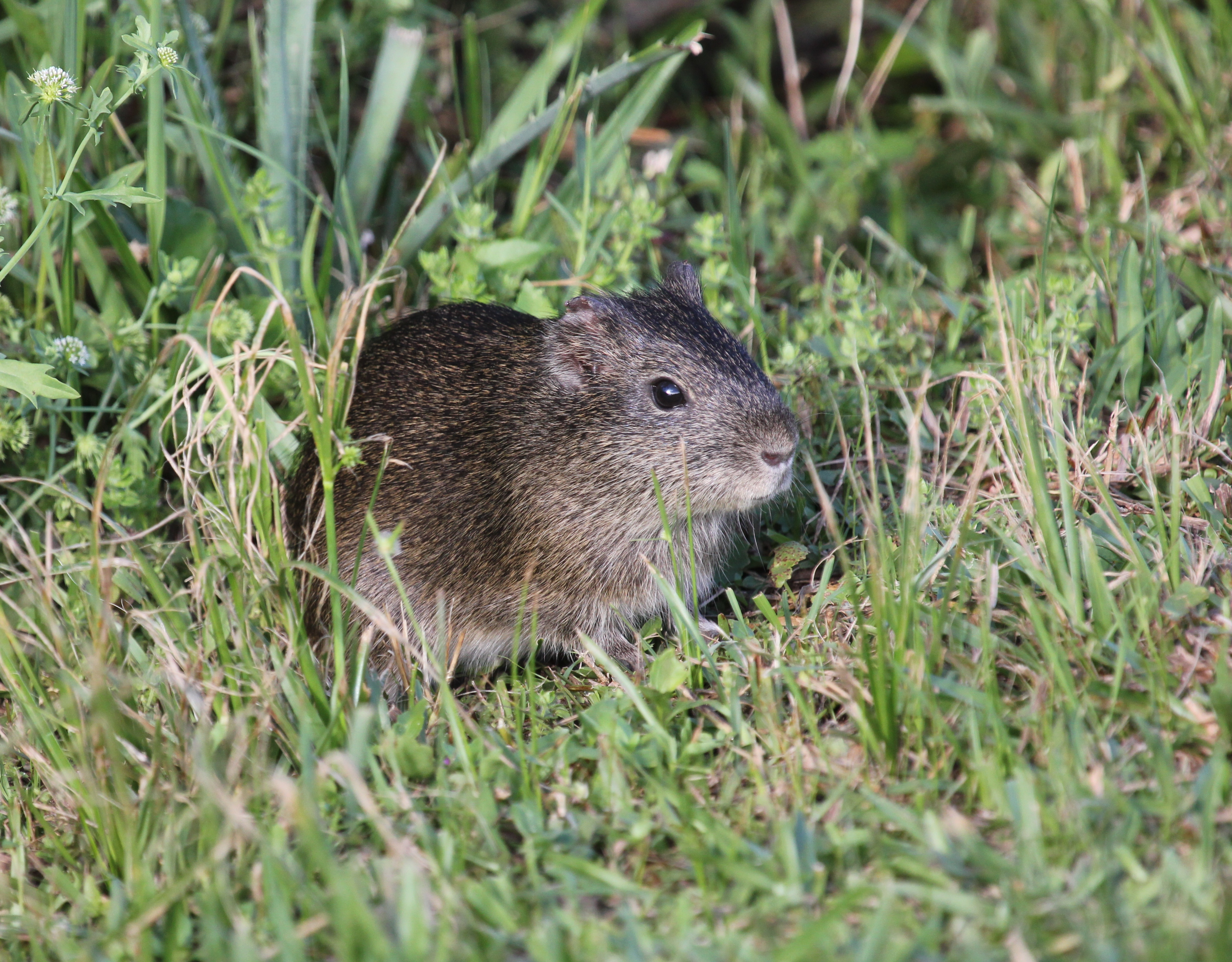 Brazilian Guinea Pig (Cavia aperea pamparum) in the Esteros del Iberá, Argentina